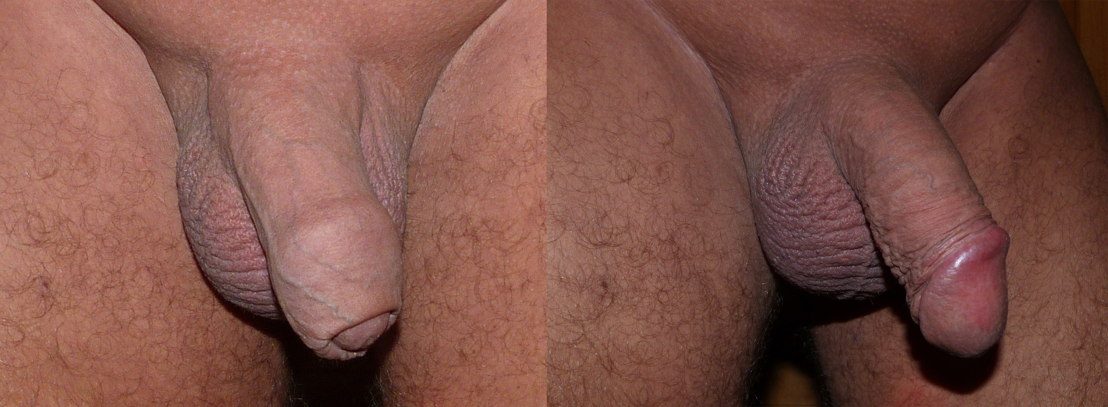 the same circoncisum sex with restored foreskin